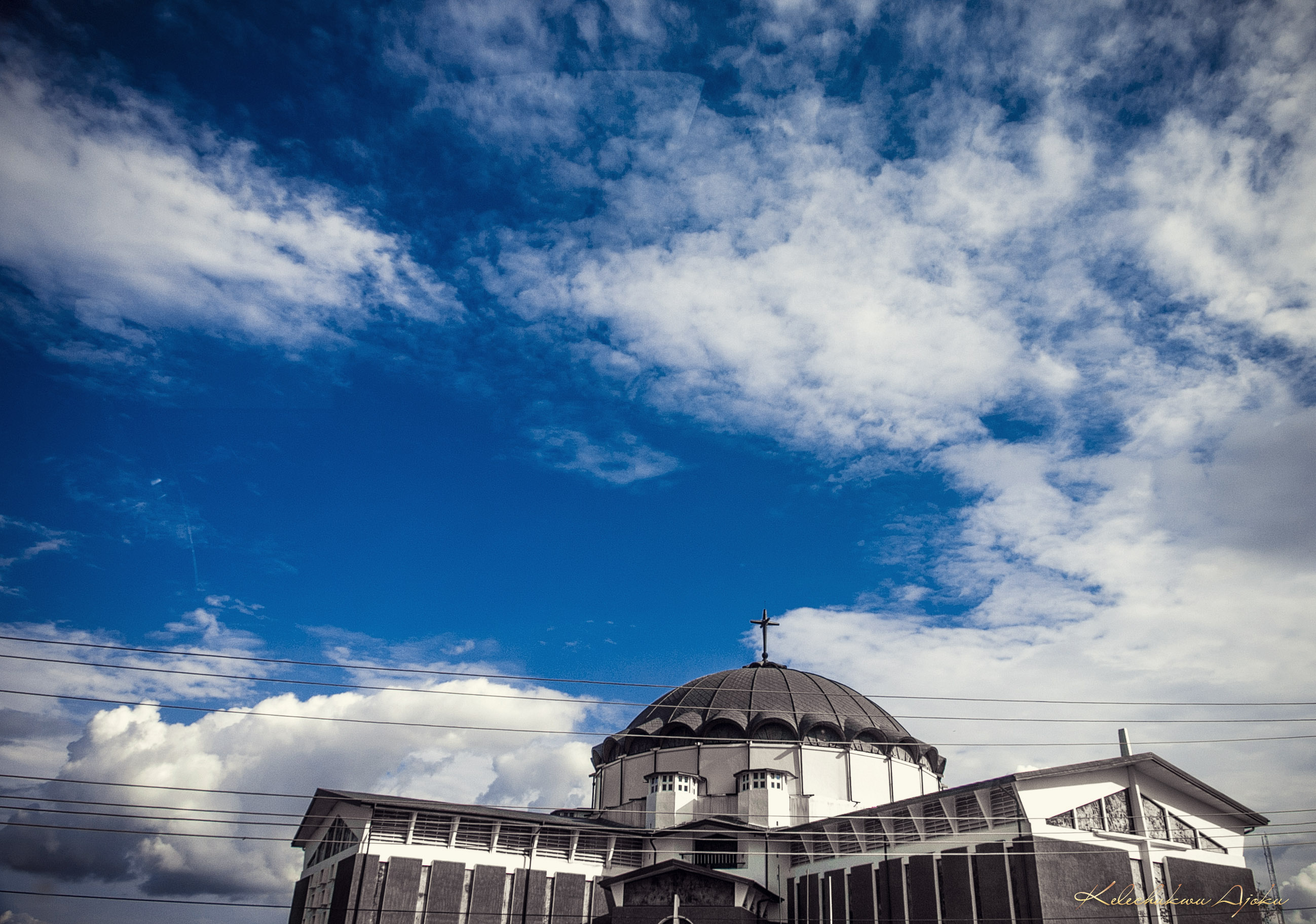 Catholic Archdiocese of Owerri's headquarters located at Control Post Owerri, Visible to everyone about to enter the Capital. It is a Massive structure and great Architectural work, undeniably a monument.